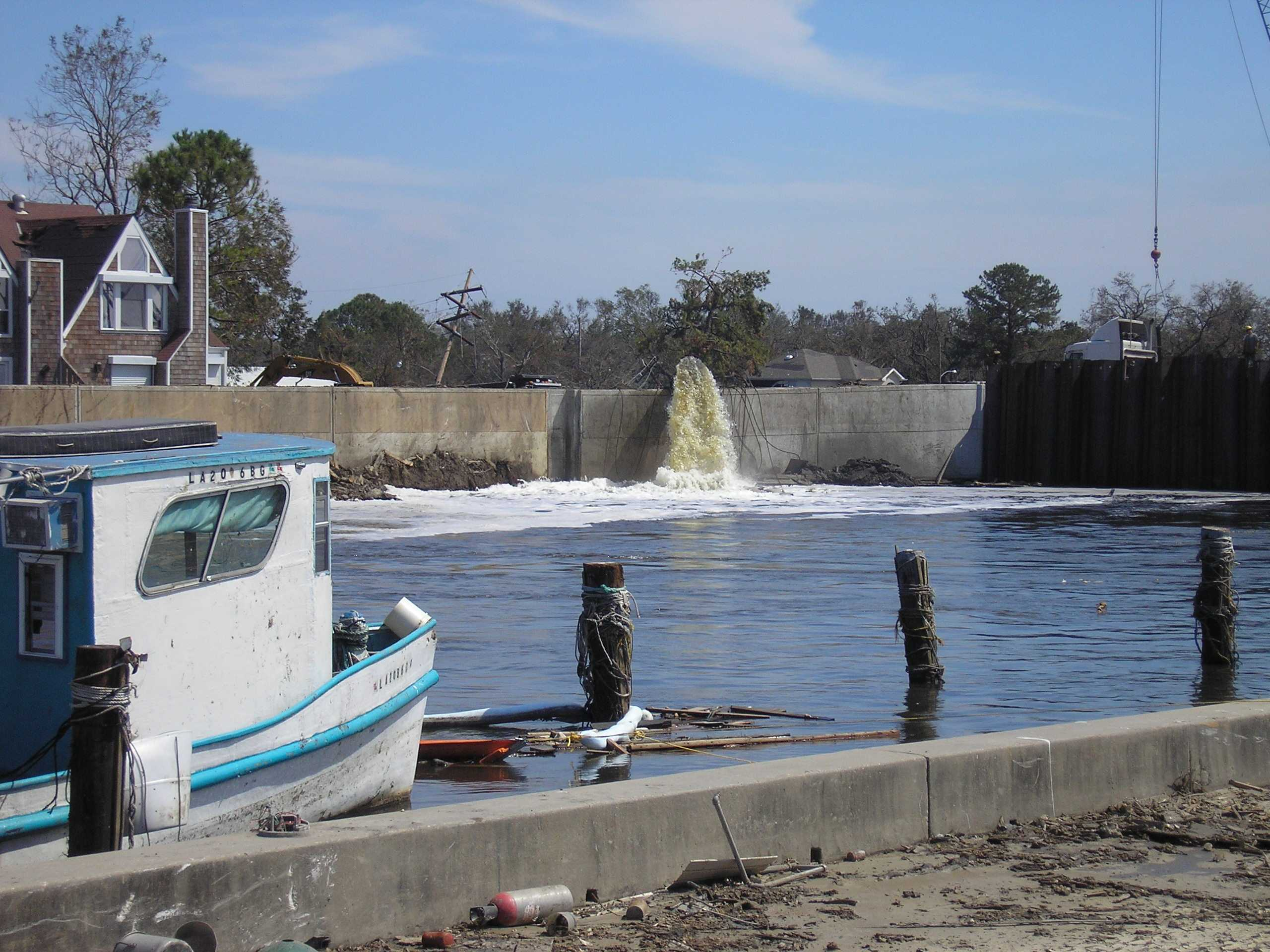 en:17th Street Canal, New Orleans. View from Bucktown side looking across to New Orleans; to right is sheet piling sealing the infamous Hurricane Katrina breech. Water being pumped out from New Orleans side seen at center. Source: I am the author. Troyag 16:31, 20 November 2006 (UTC)